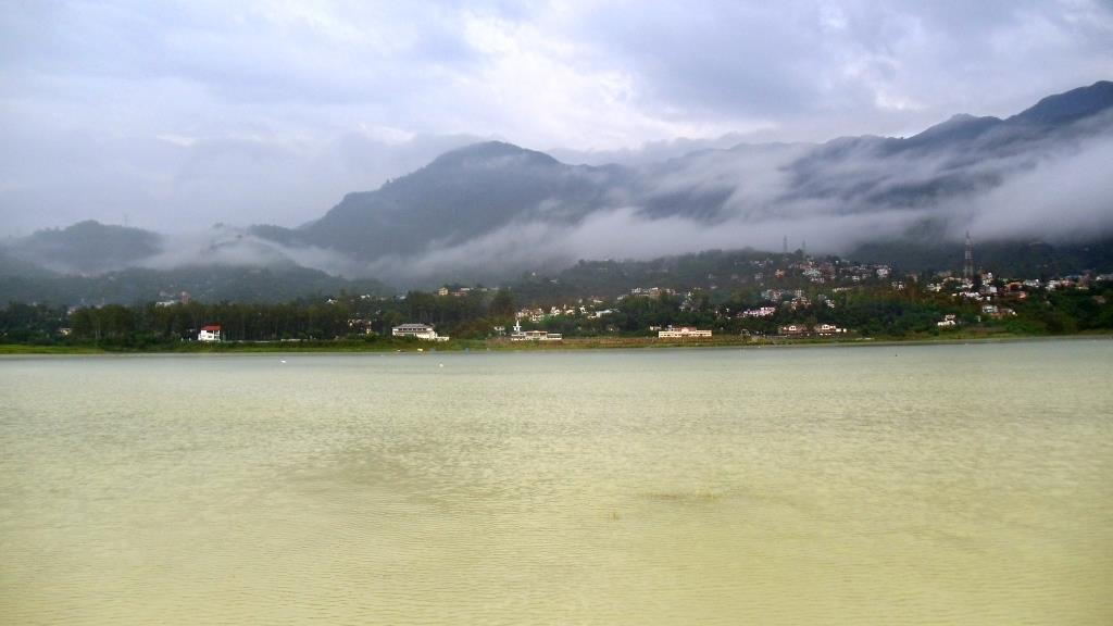 View of bilaspur with Govind Sagrar Lake completely fill